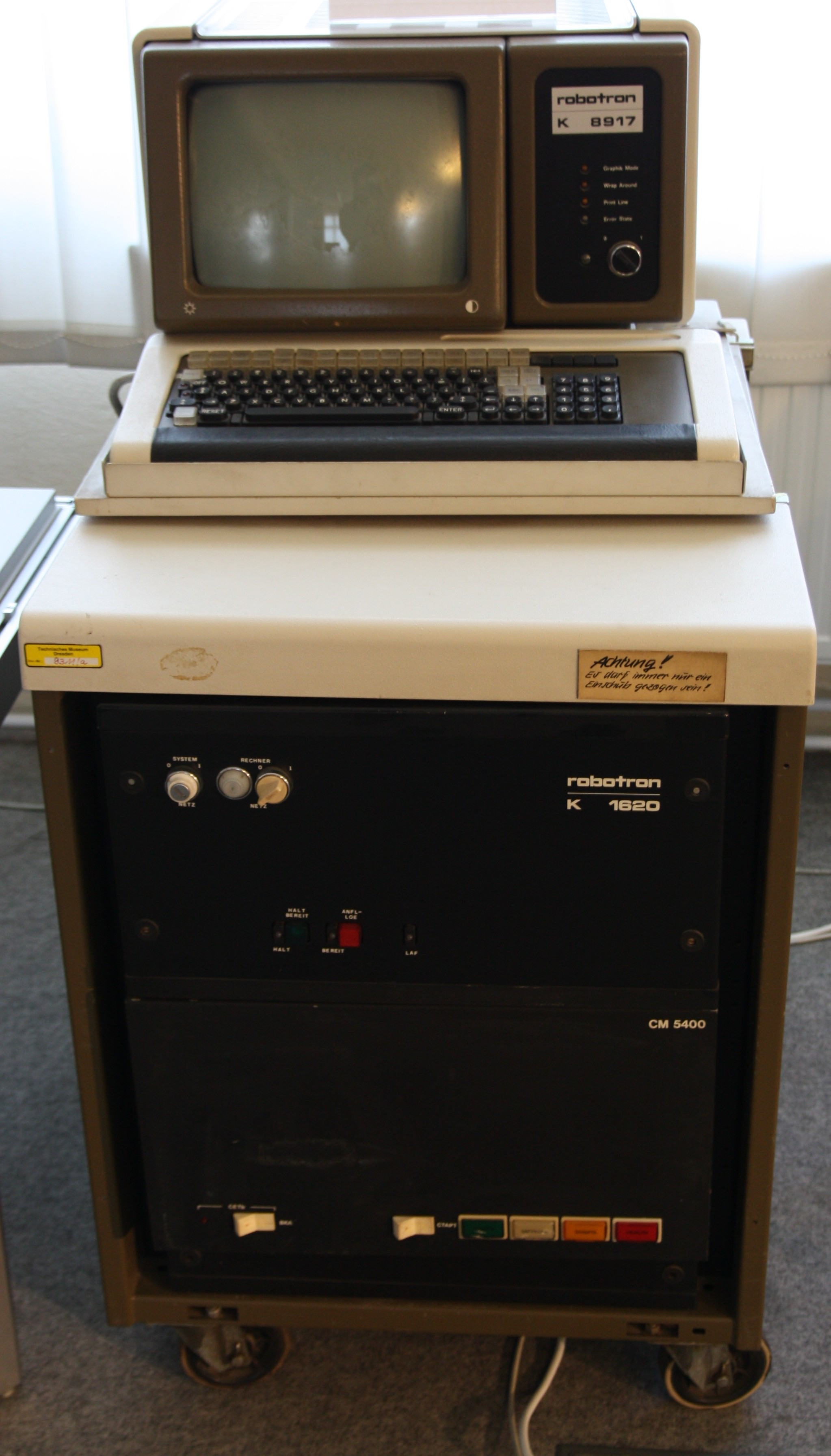 Robotron K 1620 16-Bit microcomputer from GDR (East Germany), 1982, DEC PDP 11/34 Clone, recorded in the Technical Collections Dresden